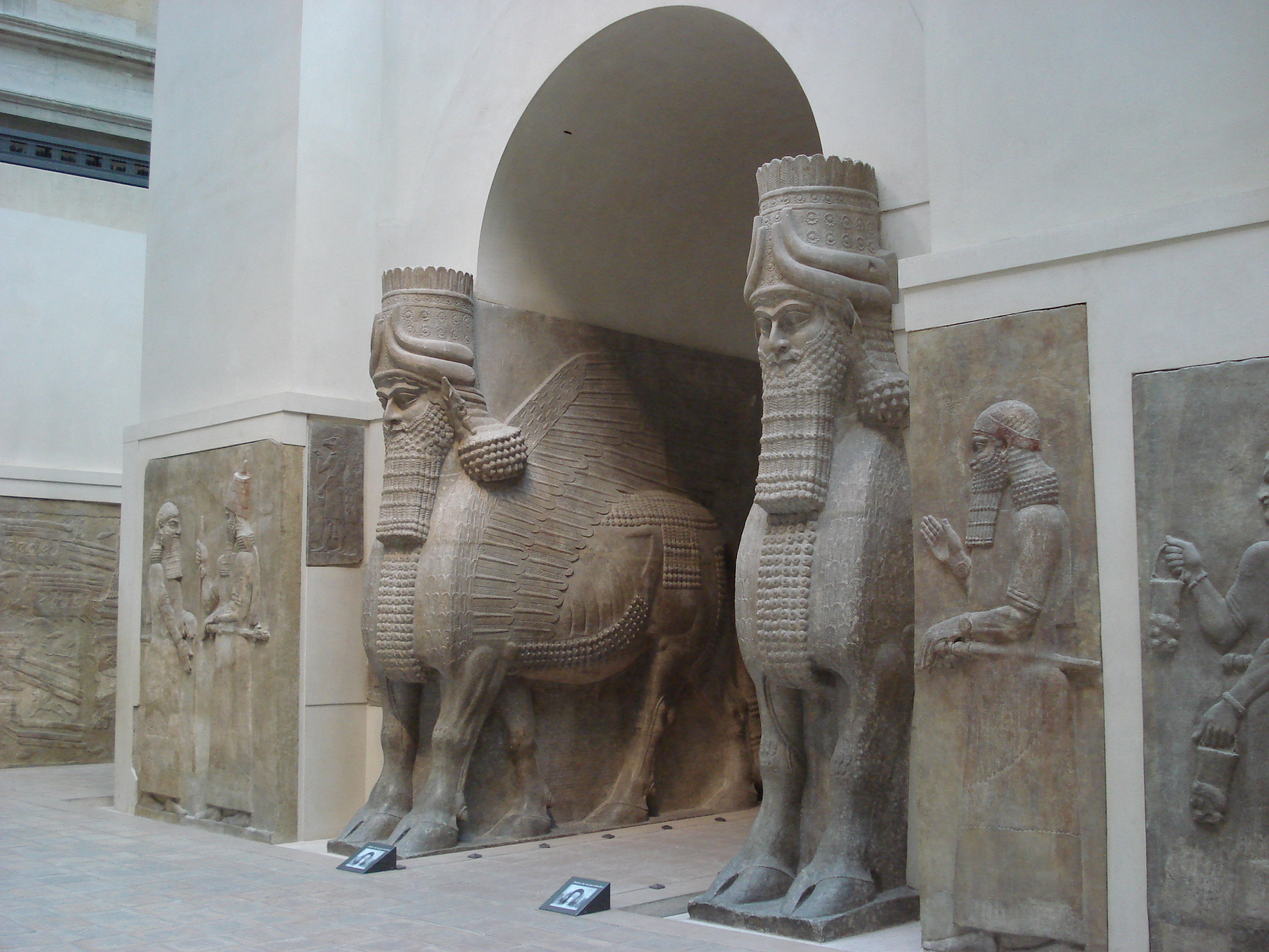 King Sargon II and a Dignatary-AO 19873-AO 19874 Winged bull with human head-AO 19857 Winged bull with human head-AO 19858 Dignitary-AO 19875 Servants carrying a wheeled throne-AO 19882